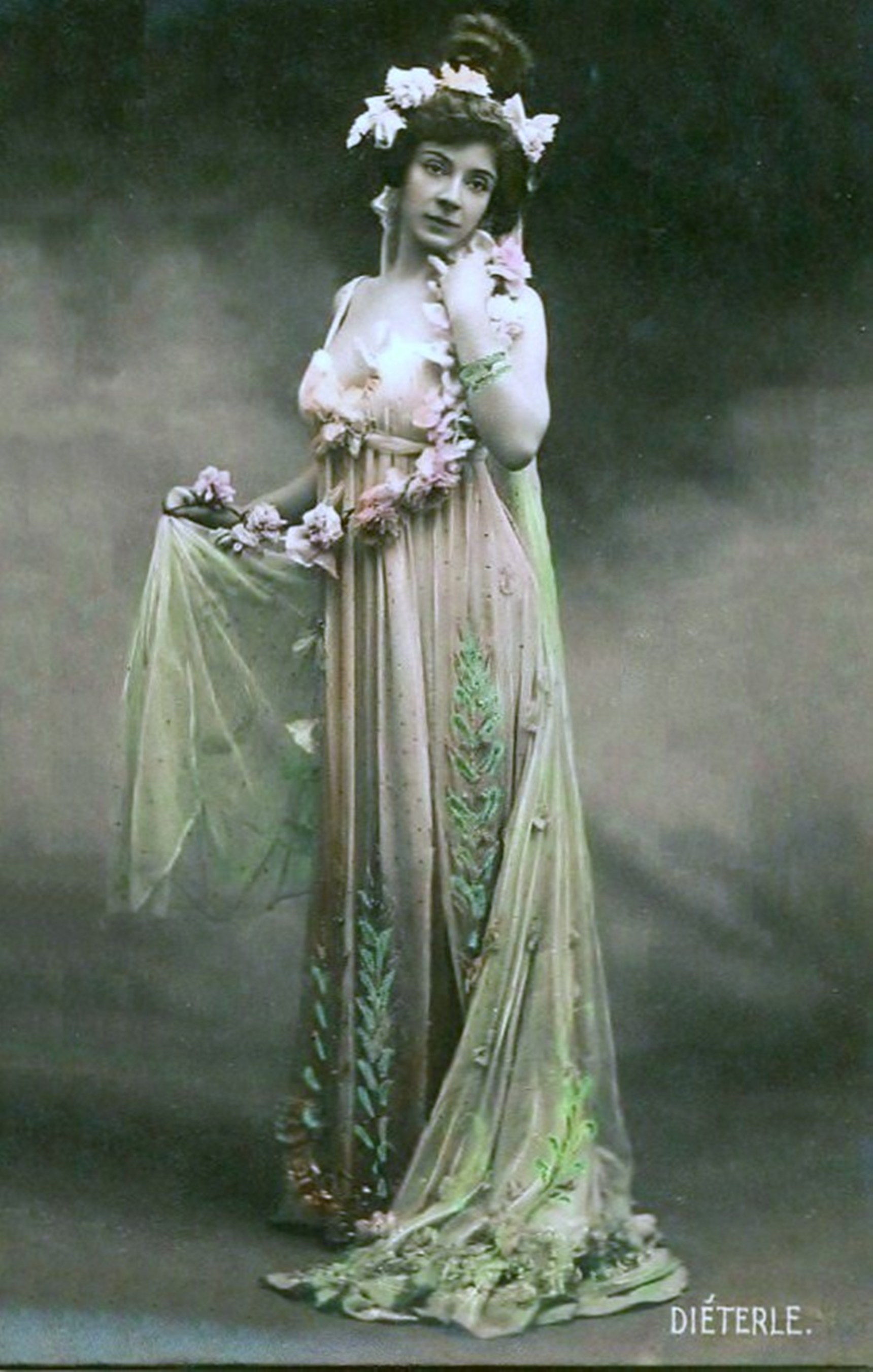 Amélie Diéterle in 1901 in « The Labors of Hercules », opéra-bouffe of Gaston Arman de Caillavet and Robert de Flers, music of Claude Terrasse at the Theater of the Bouffes-Parisiens. Amélie Diéterle interprets the role of the queen Omphale. Colorized version of the photograph of Nadar for a postcard edition. Amélie Diéterle is a French actress born in Strasbourg on February 20, 1871 and died in Cannes on January 20, 1941. She was legitimated in Paris in 1892 by Captain Louis Laurent, Knight of the Legion of Honor. Amélie Diéterle married in Vallauris on June 16th, 1930 with André Simon (1877-1965). Amélie Diéterle plays mainly at the Théâtre des Variétés in Paris during the Belle Époque.